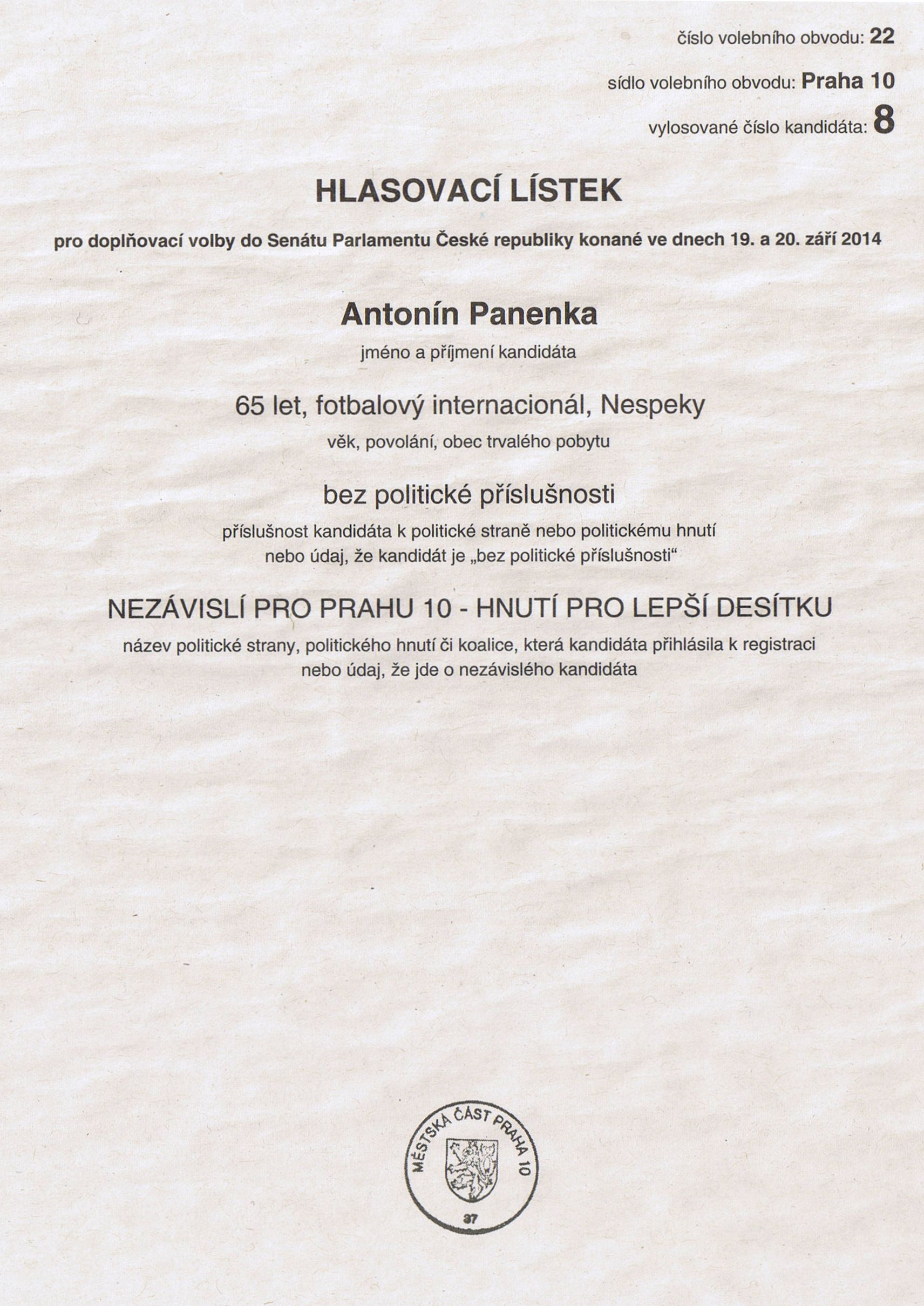 Voting paper, Senat election, 2014, Czech Republic.